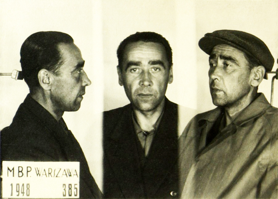 Antoni Olechnowicz (1905-1951) - a Polish military officer, Lieutenant Colonel of the Polish Army and Armia Krajowa (Home Army)